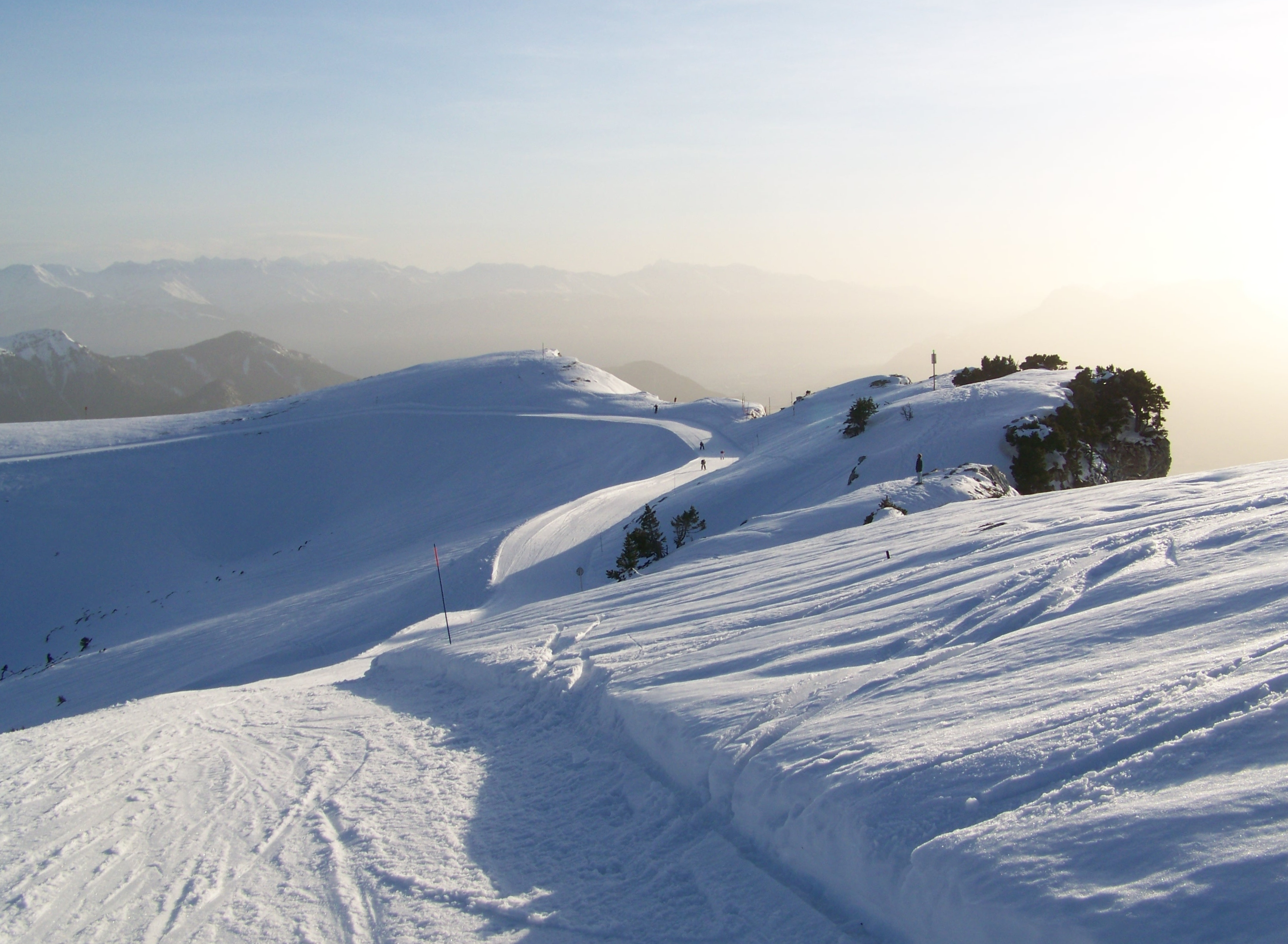 Ridge of the mont Margériaz mount (1 845 meters at the highest), skiable during the winter season as part of Les Aillons-Margériaz ski resort, in Savoie, France.